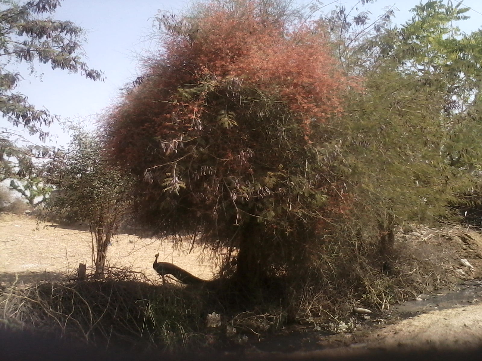 A peacock resting Under Ker Bush